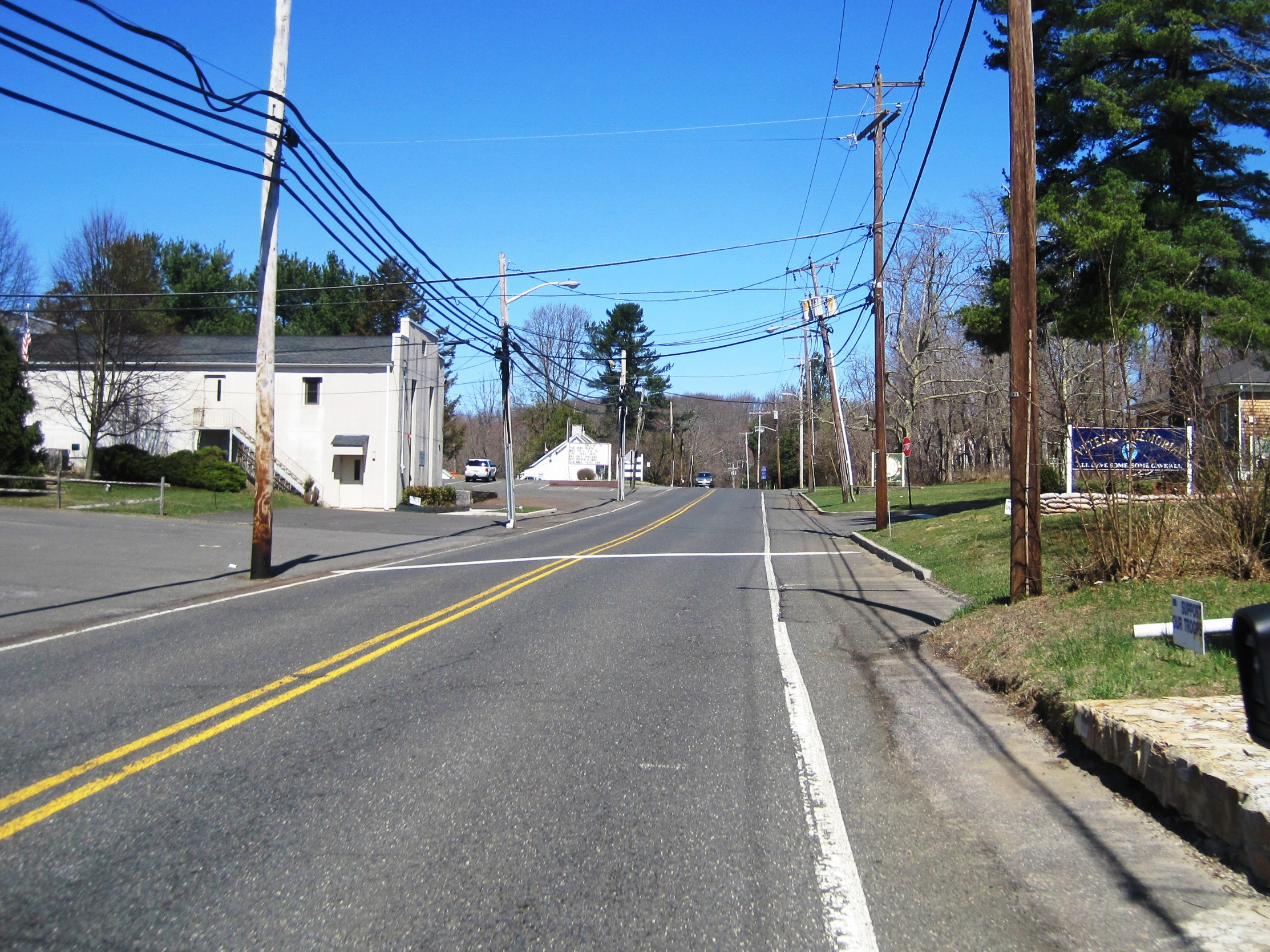 Photo of an unincorporated section of Millstone Township, New Jersey known as Clarksburg. The photo was taken on westbound Stage Coach Road (County Routes 524 and 571).